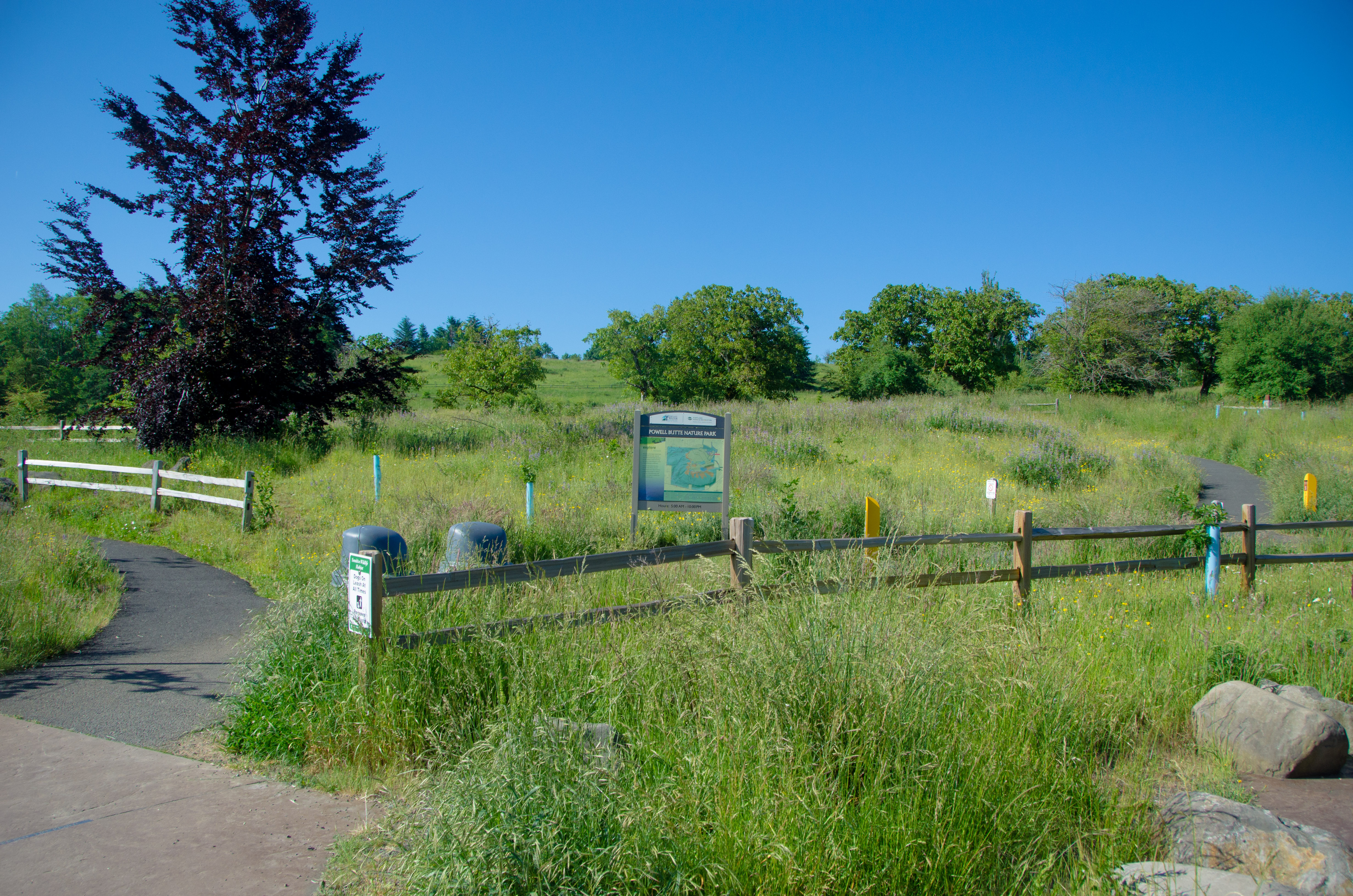 Powell Butte Nature Park, Mt Hood National Forest